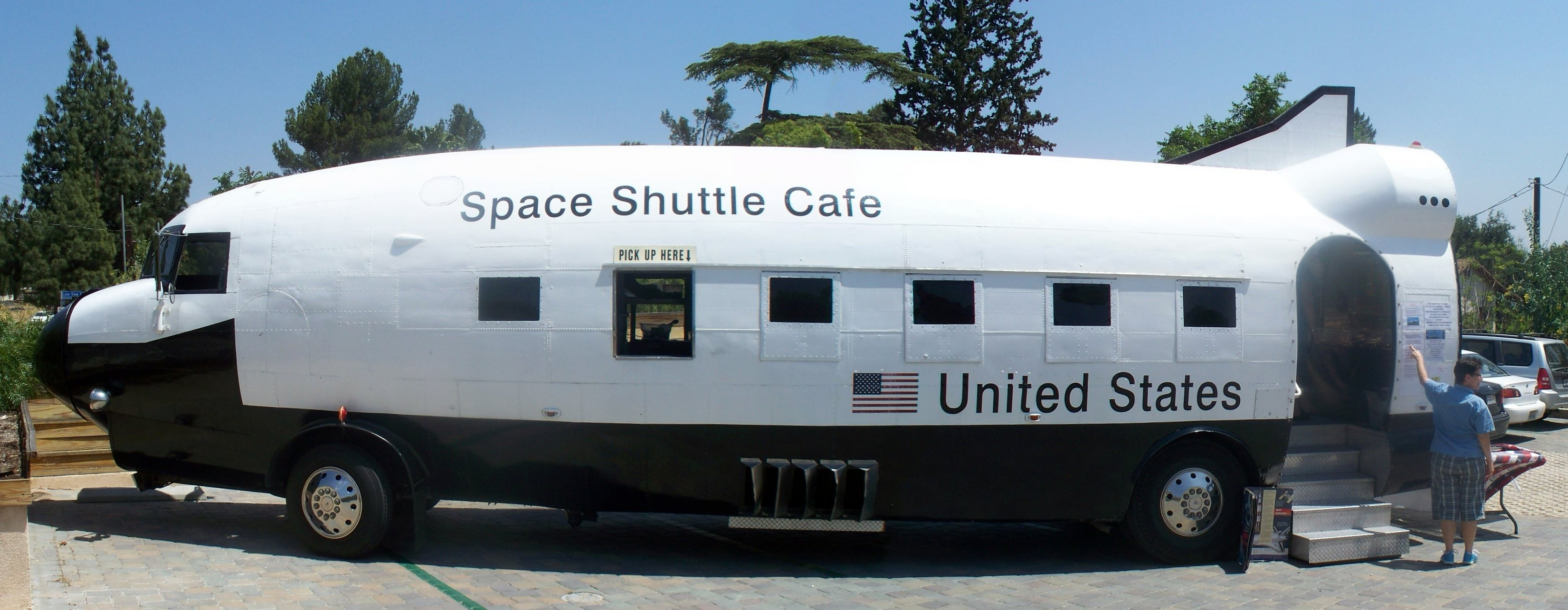 in the 1970's a Californian, H.L. “Smokey” Rolland, took a DC3 from the scrap pile (A hijacking to Cuba is part of the plane's lore) Trim the fuselage and mount it onto a school bus frame. And Voila! you have a motor home. “Air V” was for the first street legal DC3 in California. It probably still is. After a number of years "Smokey" sells the "Air V" to Robert and Heike Pfeiffer. They were inspired by NASA and converted the vehicle to look like a Space Shuttle. They Christen there modified vehicle "The Smile Shuttle" "The Smile Shuttle" is taken overseas and appears in event across Europe through the mid 80's When TSS returns from Europe it out in the Mojave Desert, East of Los Angeles, when Phil and Becky Petersen Discovered it. TSS was not in good shape and it took four years of work to get it up an running again. This time as a "Roach Coach" of sorts. Now newly renovated and a kitchen added "The Smile Shuttle" Is reincarnated one more time as it is now known. The Space Shuttle Cafe.